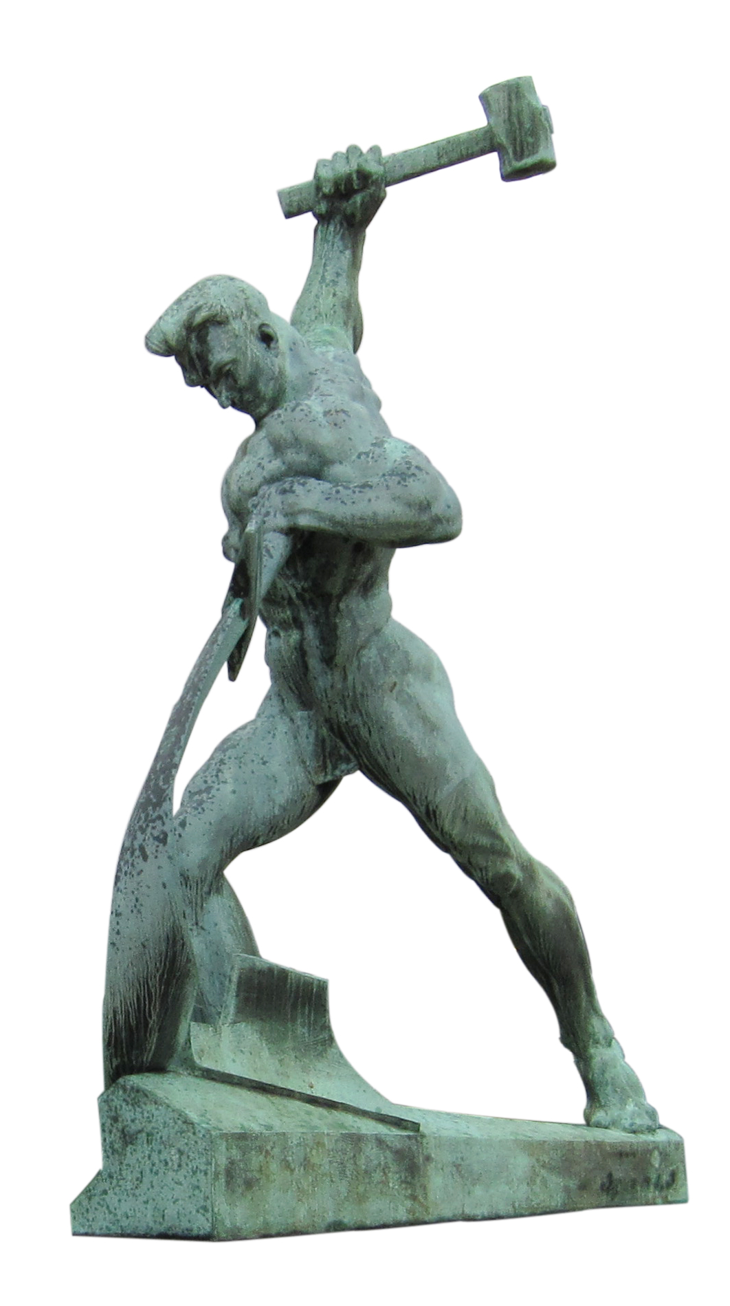 Let Us Beat Swords into Plowshares, sculpture by Yevgeny Vuchetich - 1959 gift of the Soviet Union to the United Nations - garden of the United Nations Headquarters in New York City